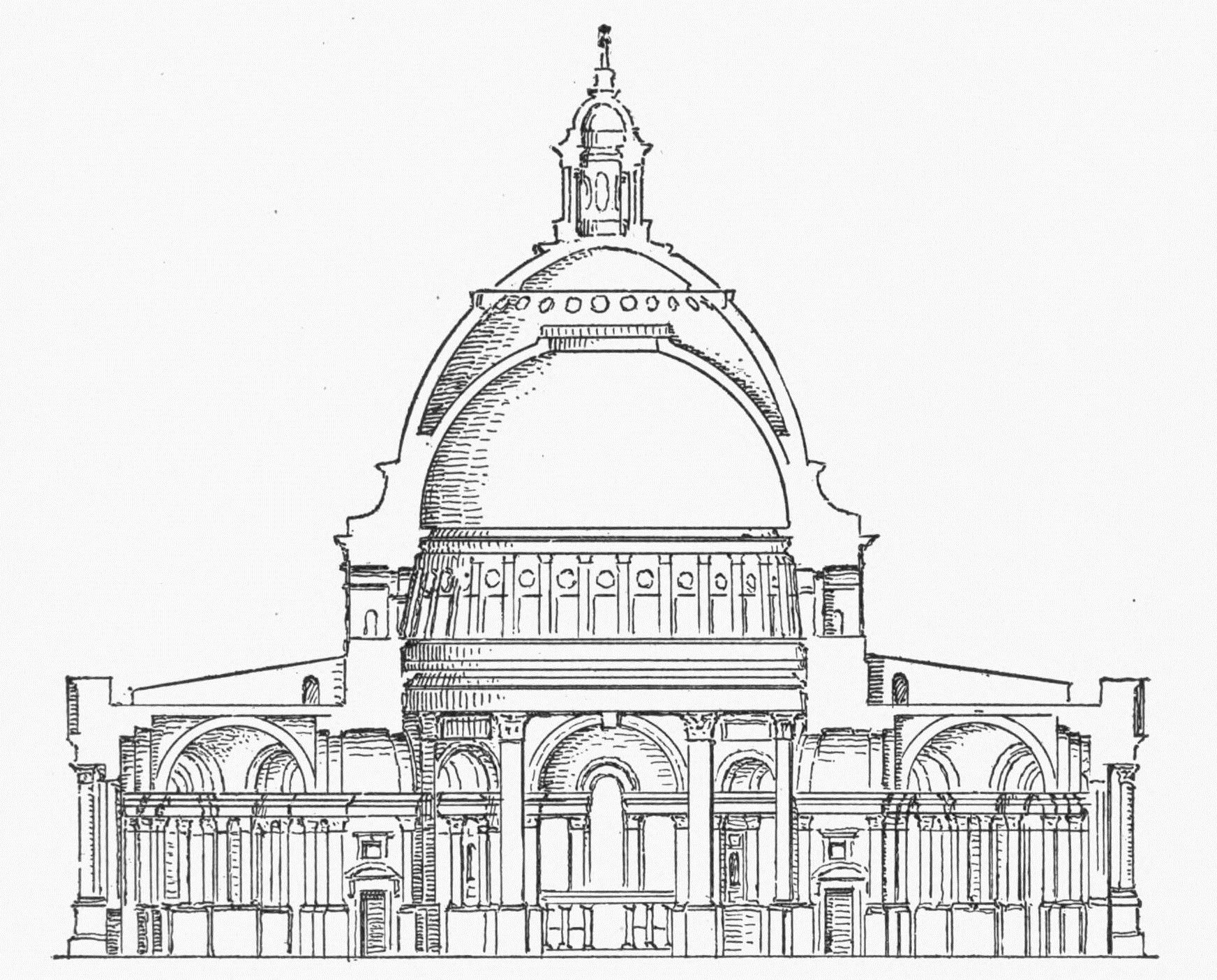 Scan from book 'Character of Renaissance Architecture'